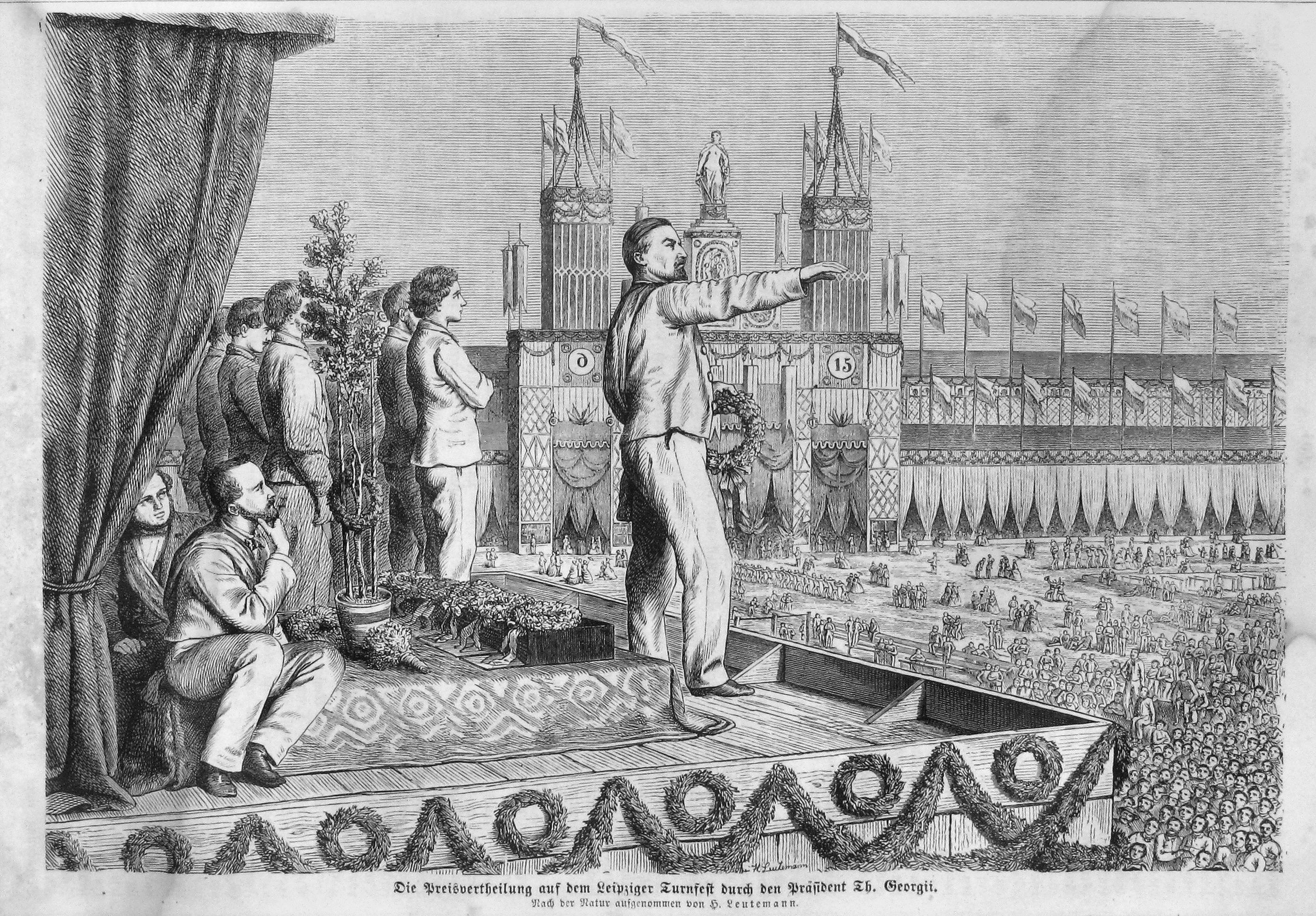 caption: "Die Preisvertheilung auf dem Leipziger Turnfest durch den Präsident Th. Georgii. Nach der Natur aufgenommen von H. Leutemann."